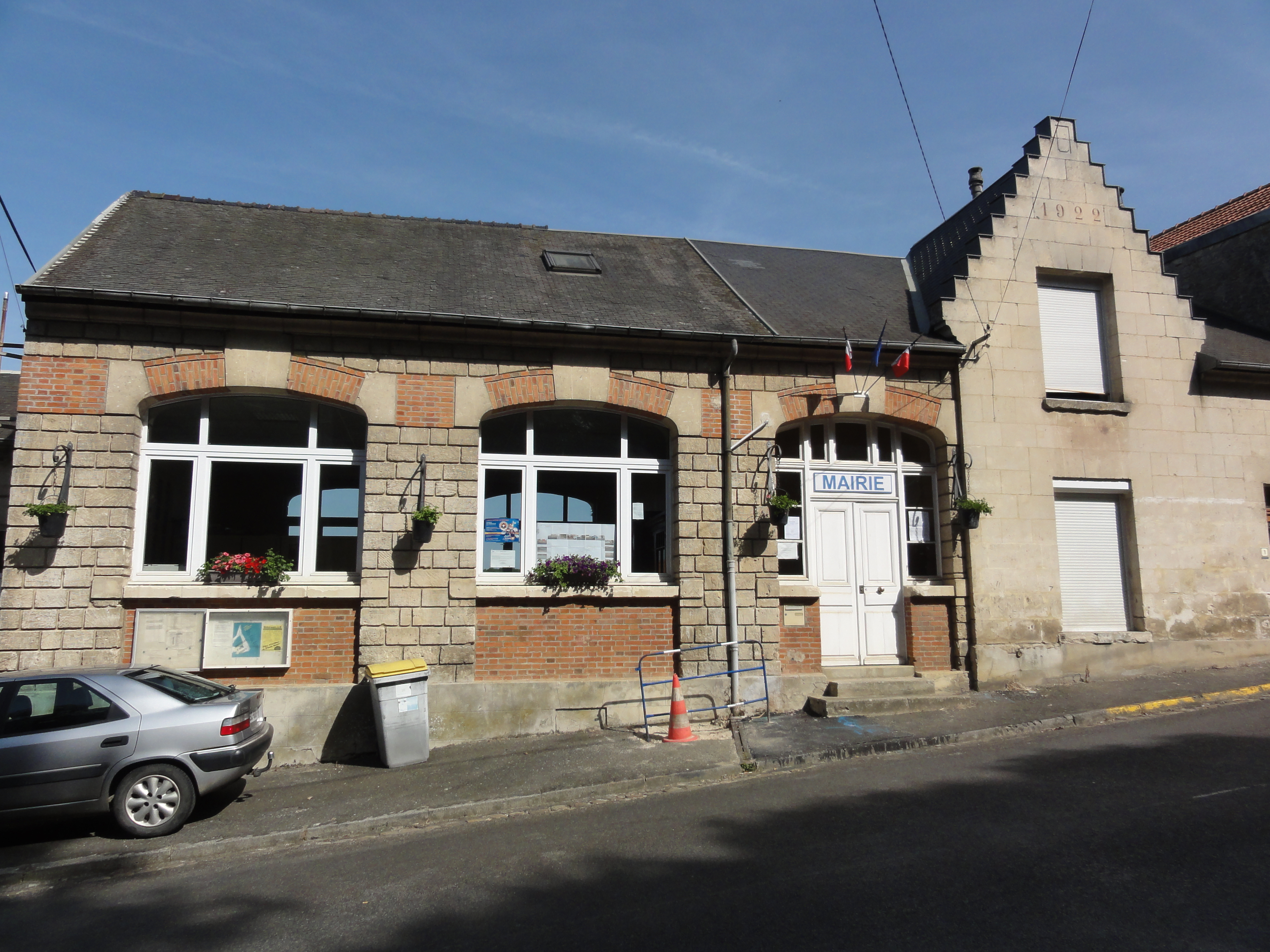 Brenelle (Aisne) mairie